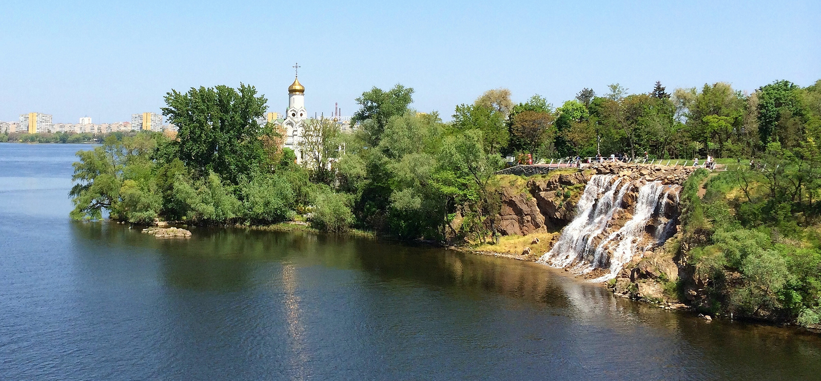 A view of Komsomolsky/Monastyrsky Island in Dnipropetrovsk seen from Shevchenko park.